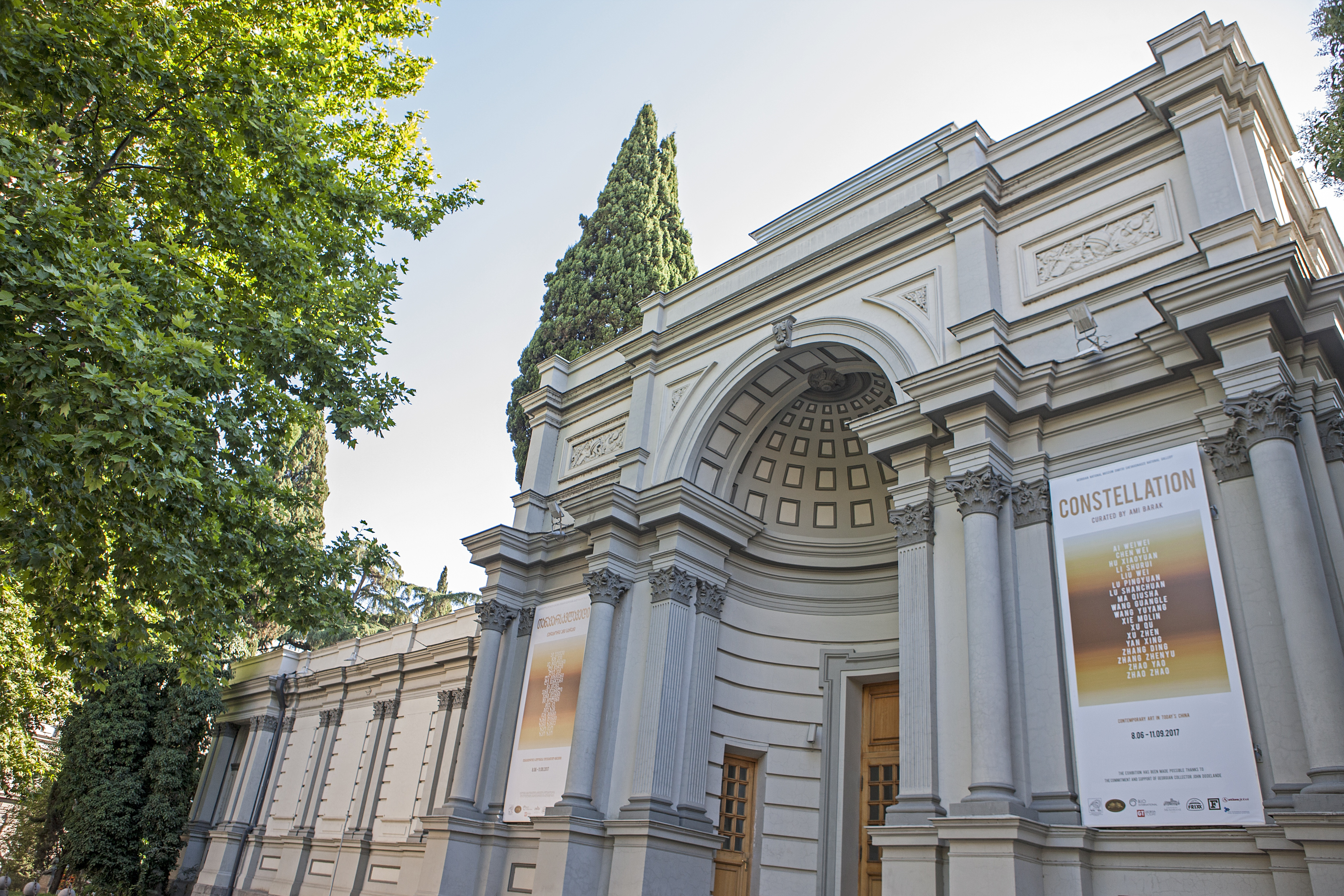 National Gallery, Rustaveli Avenue, Tbilisi, Georgia